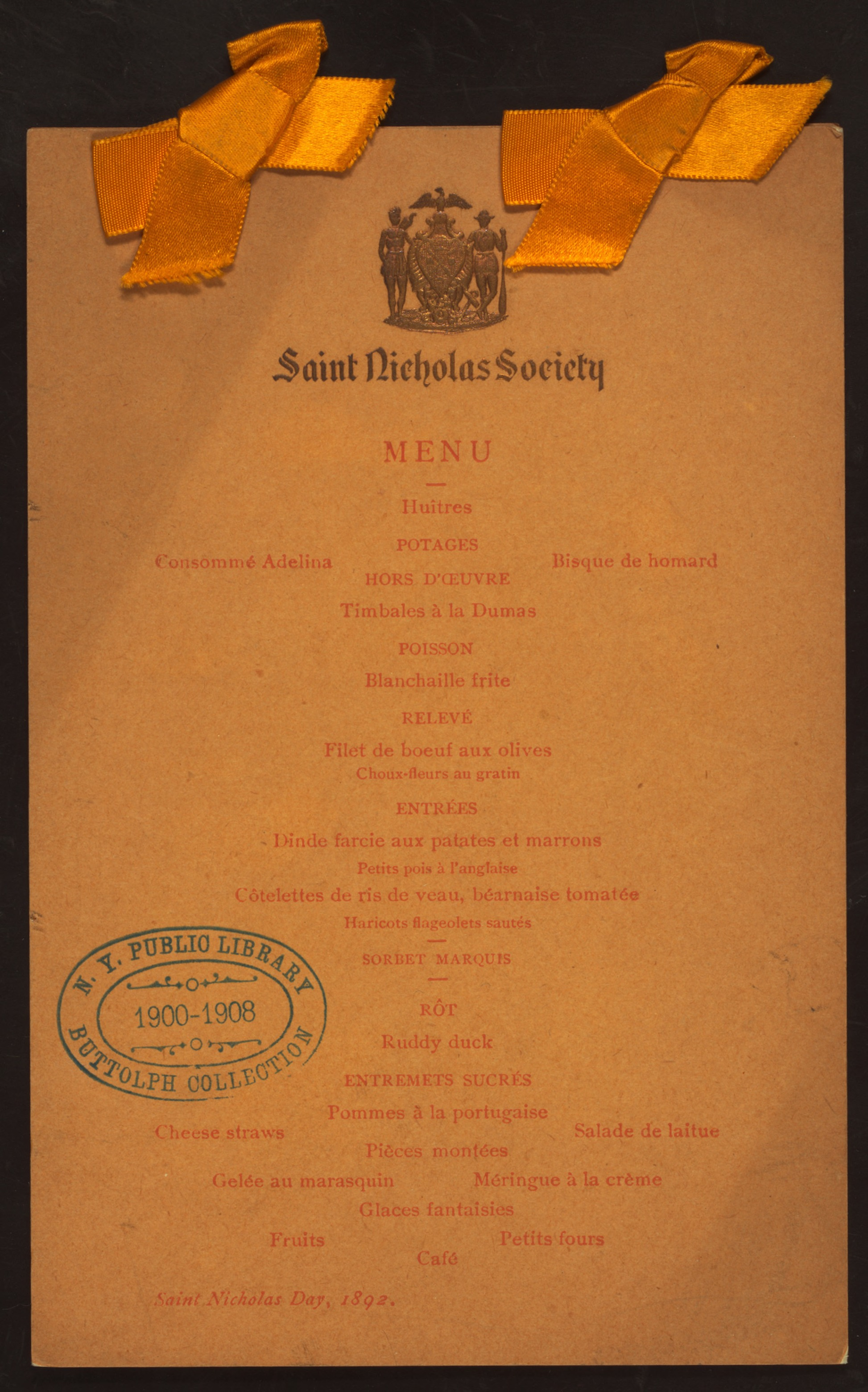 FRENCH; INCLUDES PRICED WINE LIST; EMBLEM OF SOCIETY ON COVER; SILK RIBBON ATTACHMENTS